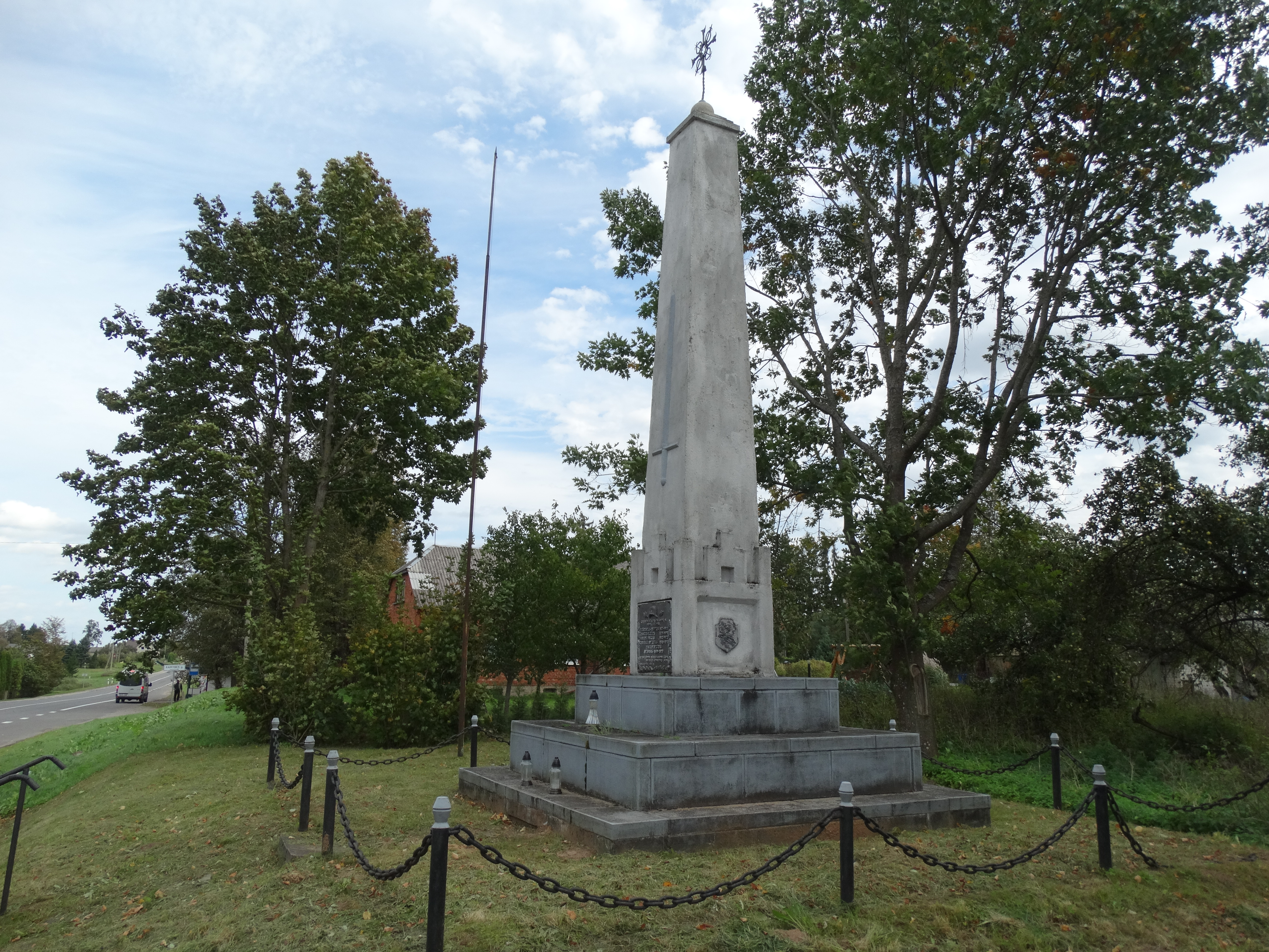 Independence monument, Skriaudžiai, Prienai district, Lithuania